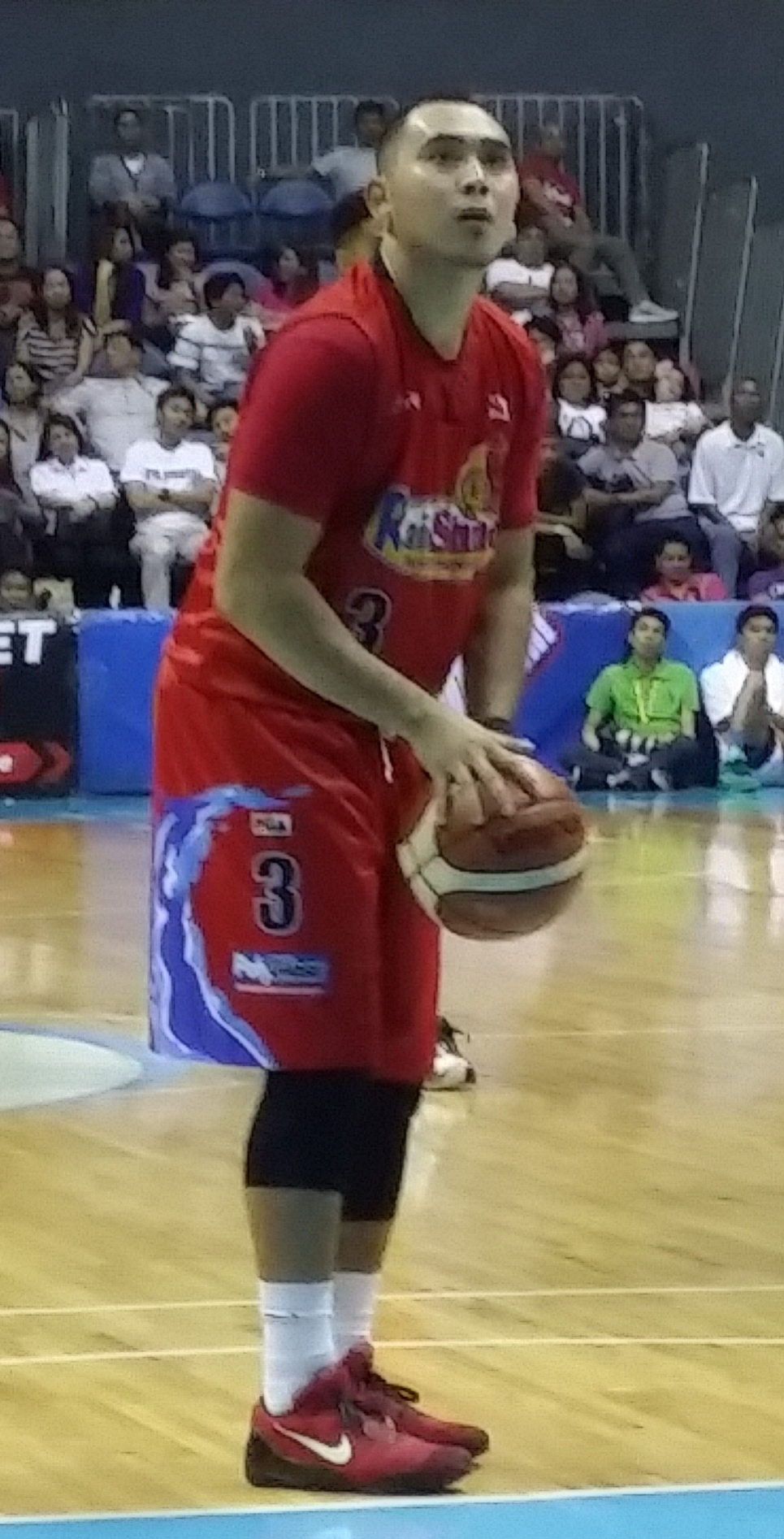 PBA - Rain or Shine vs San Miguel - Paul Lee-ROS - 2016-0107